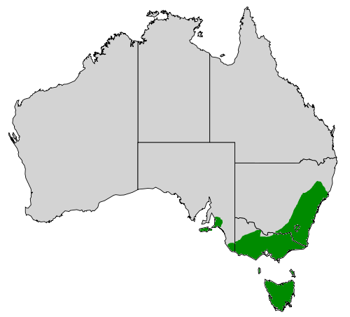 Crescent Honeyeater range map, derived from page 1000 of Higgins, P.J.; Peter, J.M. and Steele, W.K. (2001) Tyrant-flycatchers to Chats, Handbook of Australian, New Zealand and Antarctic birds, 5, Melbourne, Vic: Oxford University Press ISBN: 0195530713. . Base map of Australia was File:Australia map, States.svg